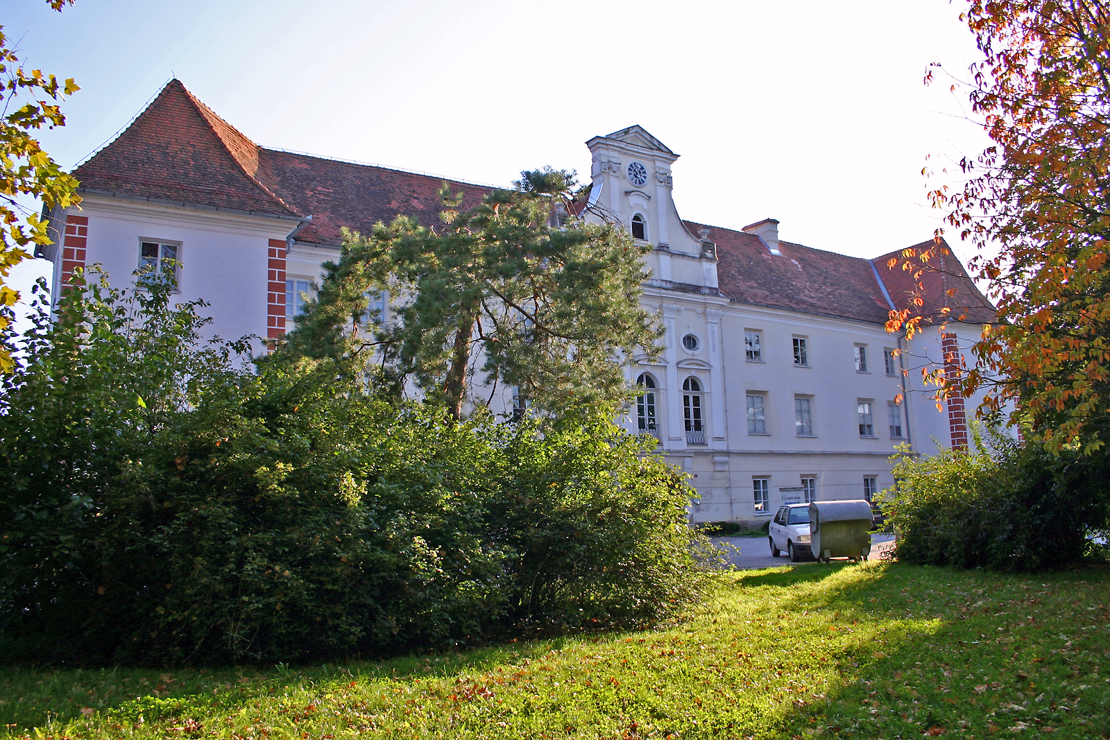 Murska Sobota Castle